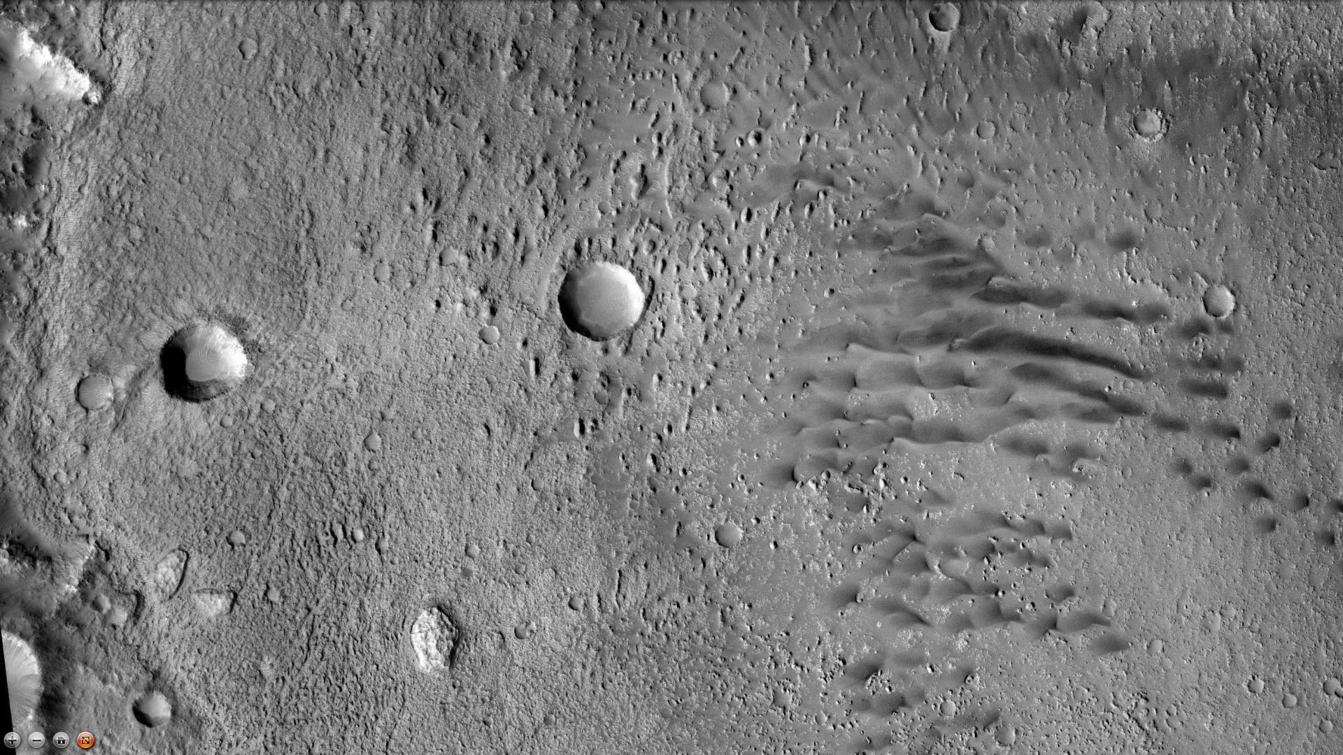 Jarry-Desloges Crater showing dunes, as seen by ctx